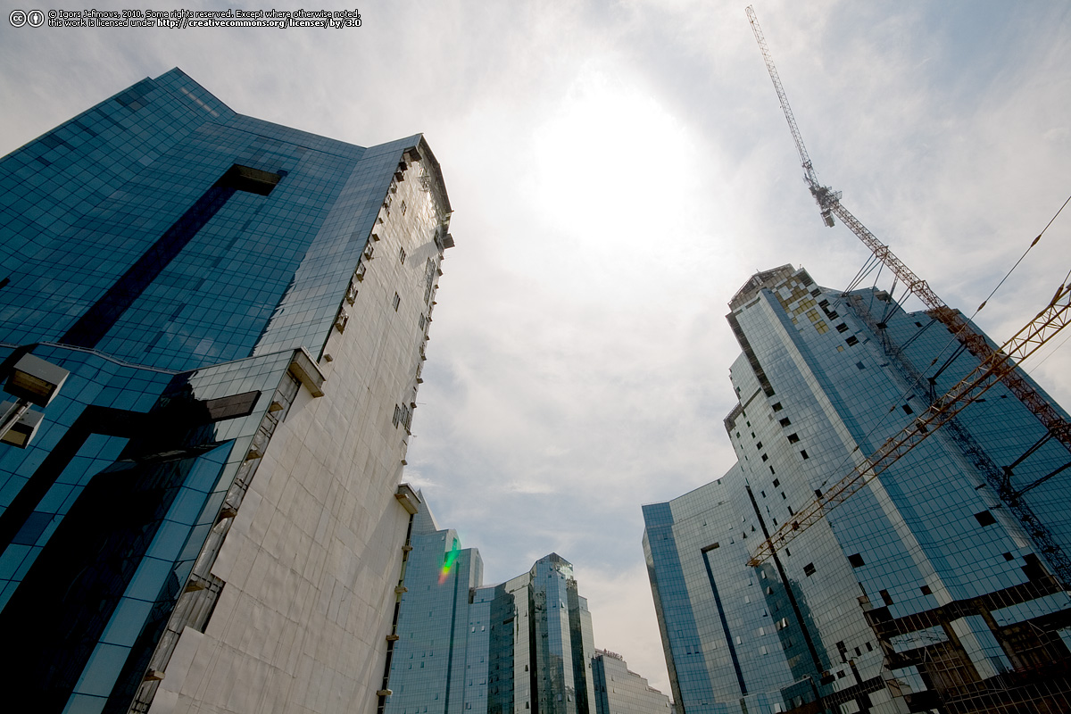 Nurly Tau business center constructing